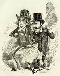 Henry Irving and Frederick Balsir Chatterton - Illustration from 'The Illustrated Sporting and Dramatic News' (1884)